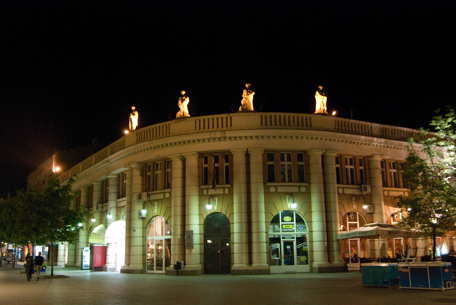 Municipality building in Smederevo, Serbia.